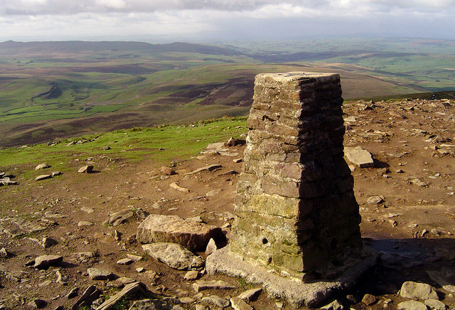 Pen-y-ghent trig point The triangulation pillar at 694m and the view back down the dales as seen on the Three Peaks Challenge Walk.